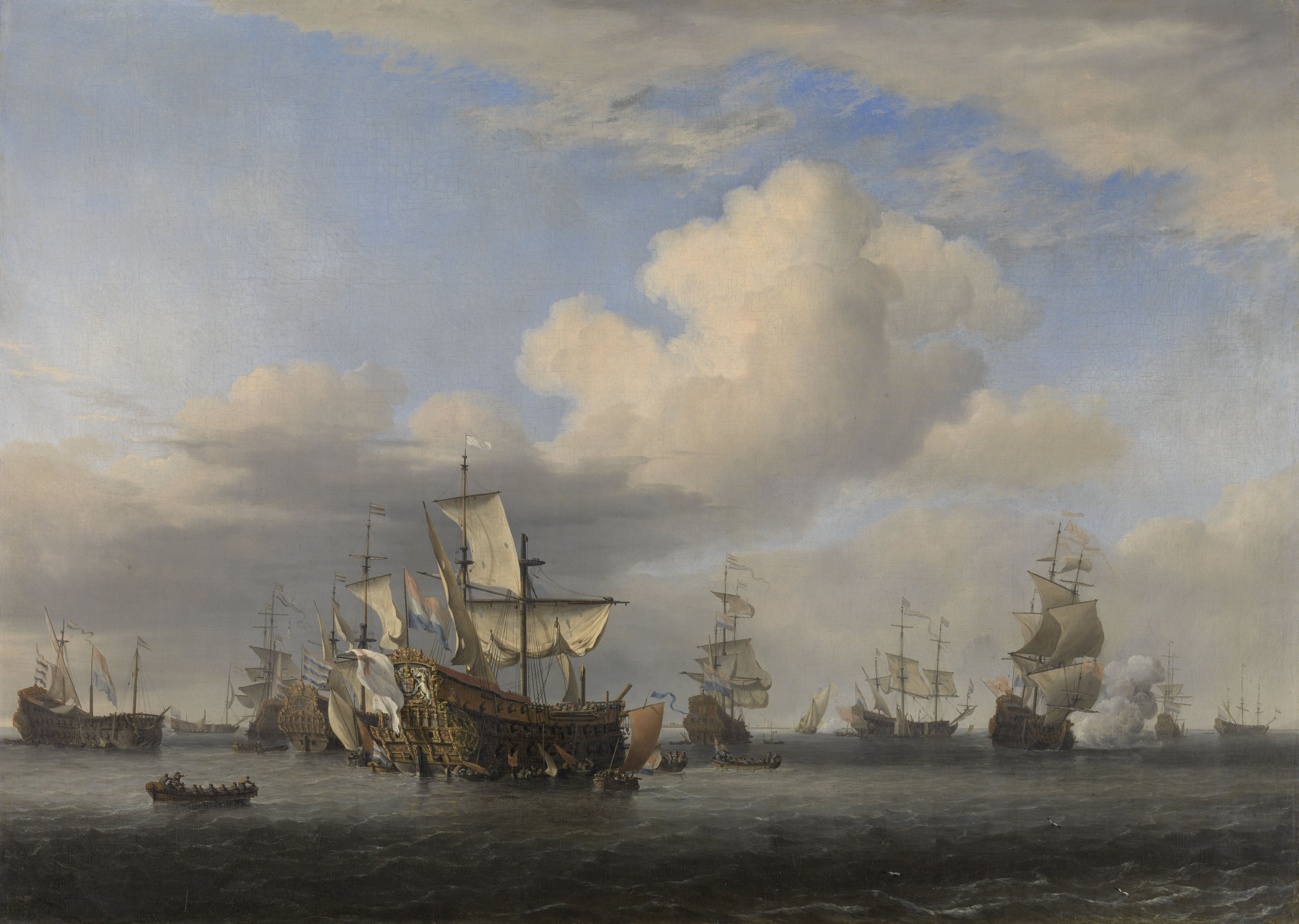 SCENE REPRESENTS: The capture of the English flagship HMS Prince Royal, 13 June 1666, during the Four Day Battle at Sea, 11-14 June 1666; episode from the Second Anglo-Dutch War (1665-67).